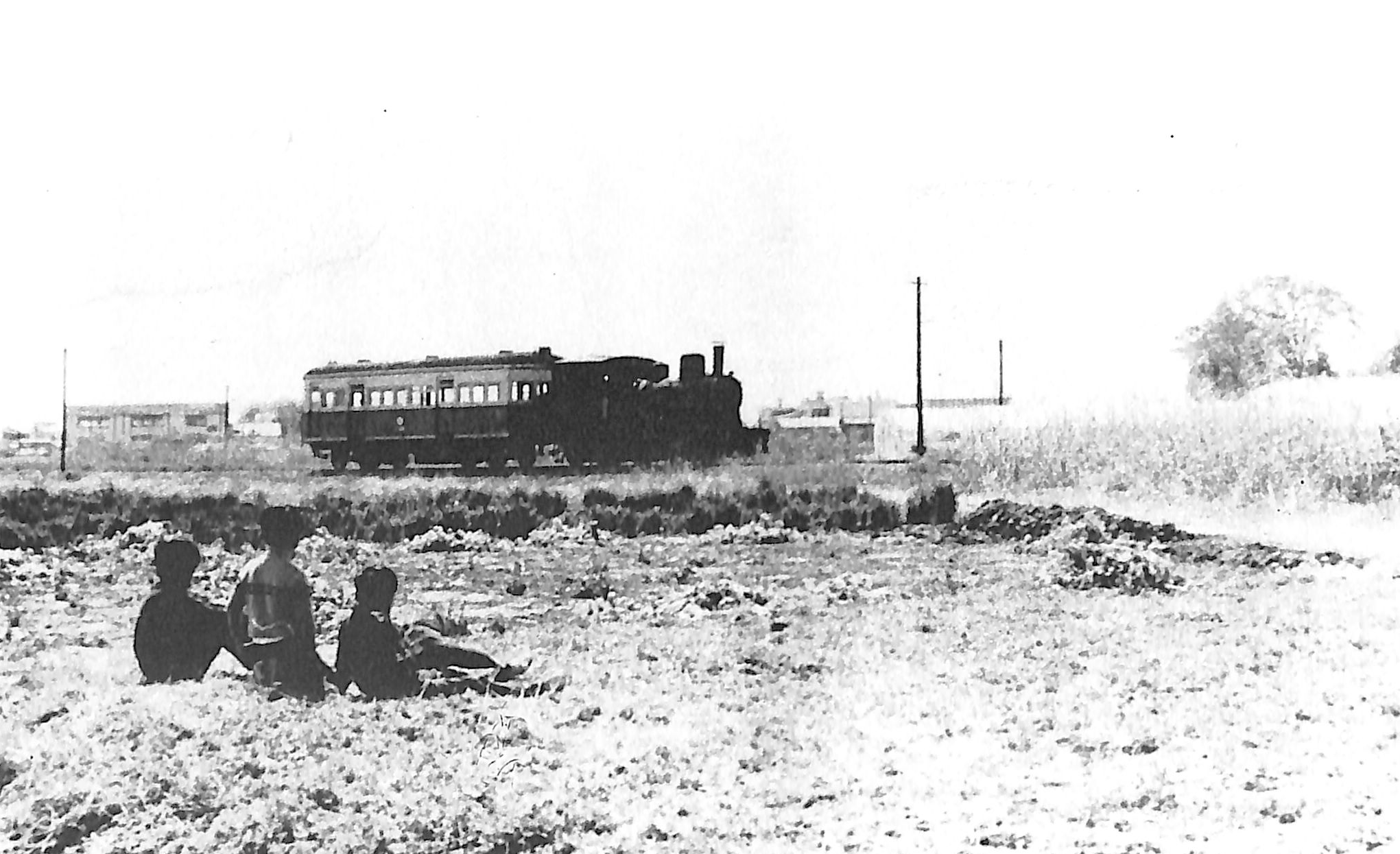 This was a scene of around Mushikake station around 1935 in Tsuchiura, Ibaraki, Japan.